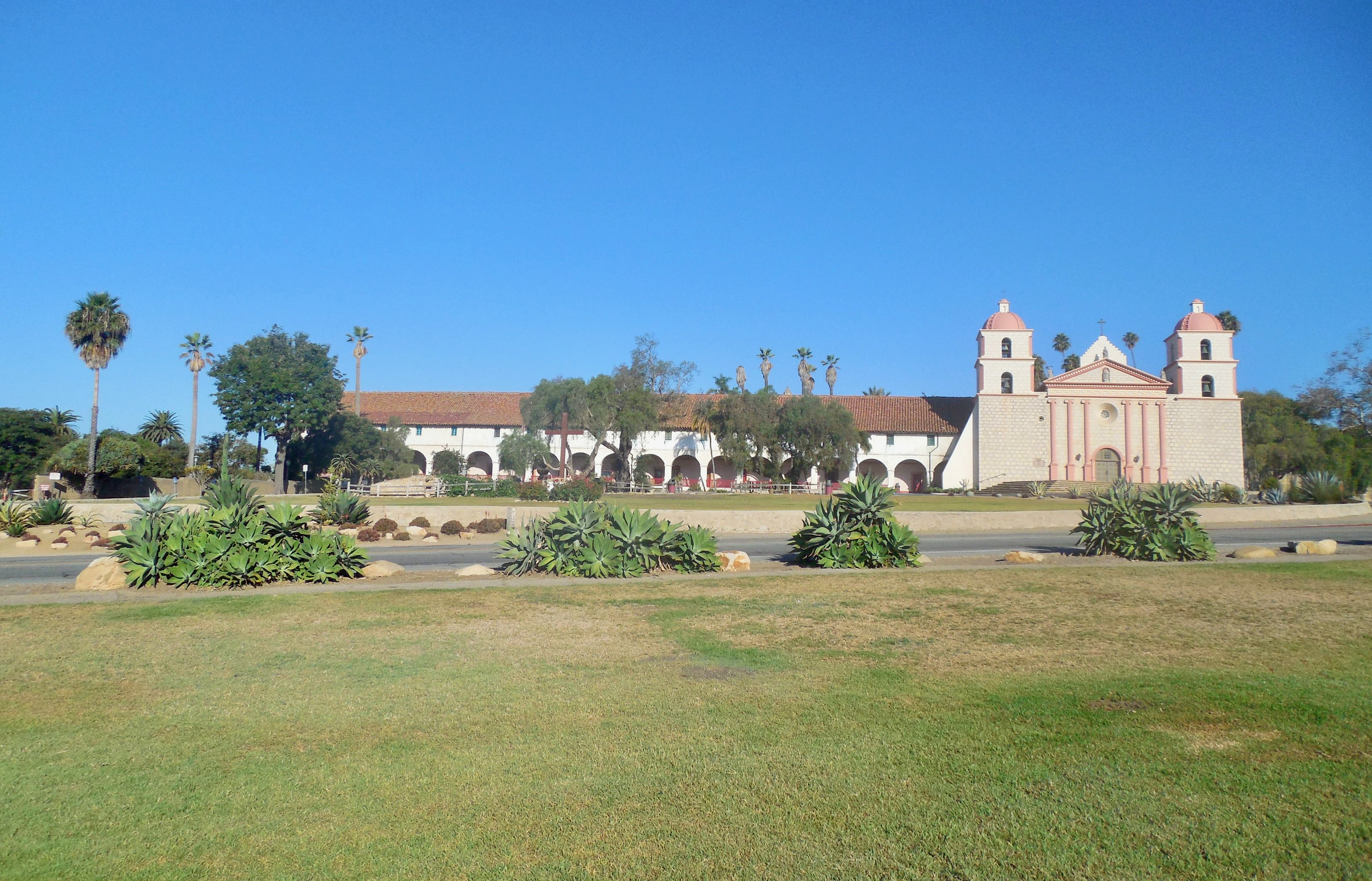 Front view of the Santa Barbara Mission (from Mission Park across E. Los Olivos St.), Sep 2014